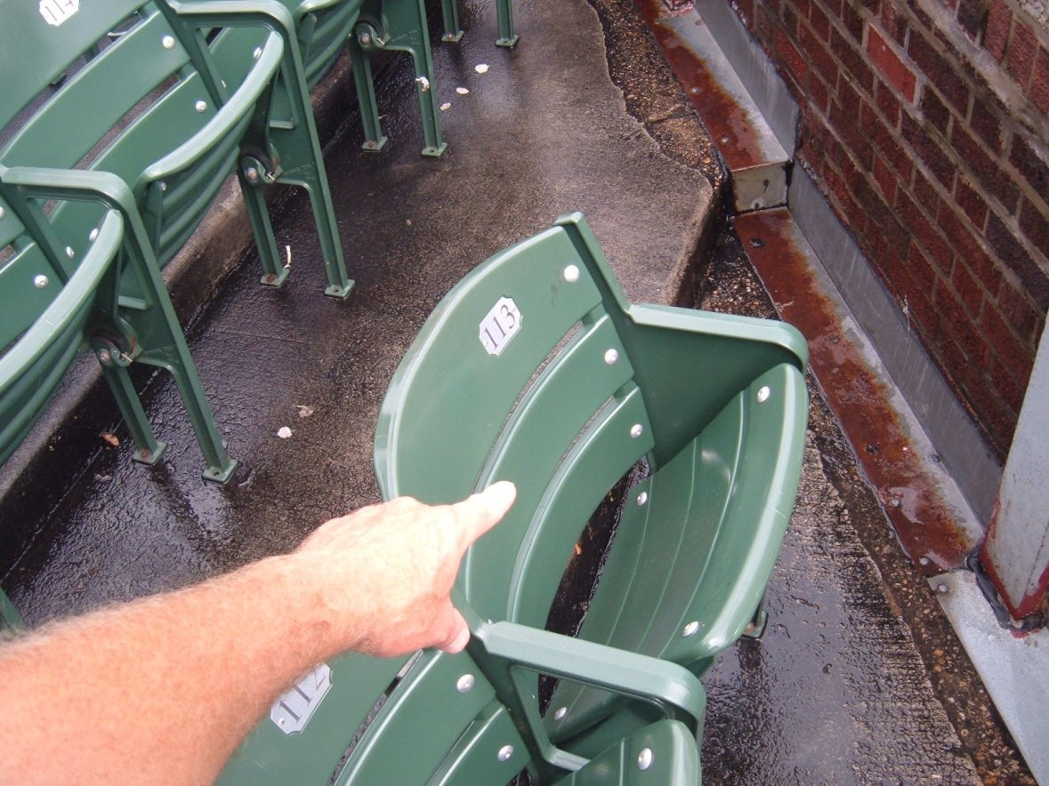 Steve Bartman seat, aisle 4, row 4, seat 113. In 2007, fans continue to flock to see and photograph this famous location.